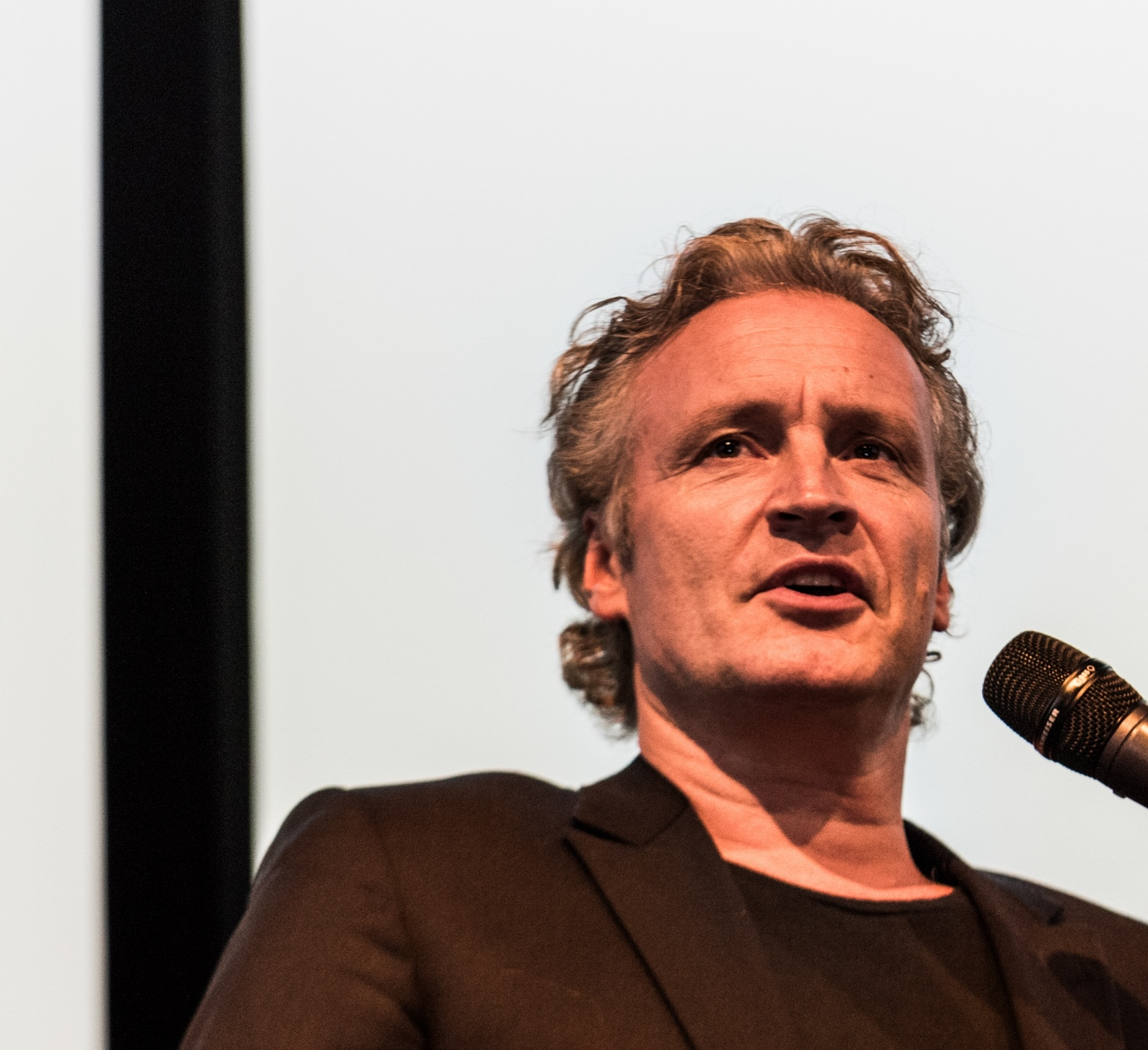 Dutch TV producer Erland Galjaard in Nov. 2014